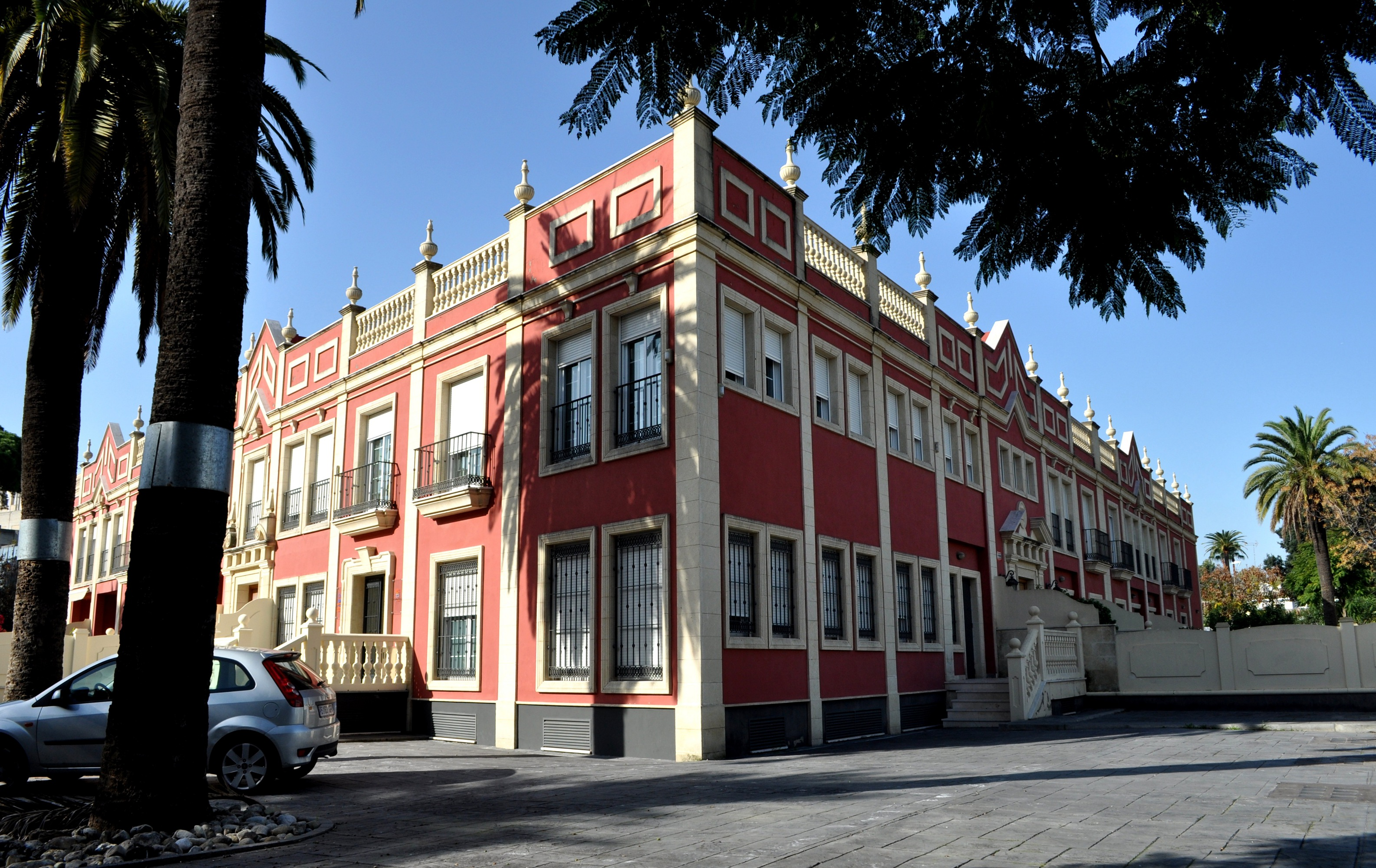 Alcalde Alvaro Domecq St., Jerez de la Frontera